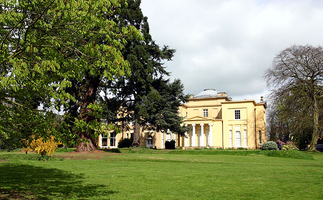 Upton Hall. The British Horological Institute, in the centre of Upton village.